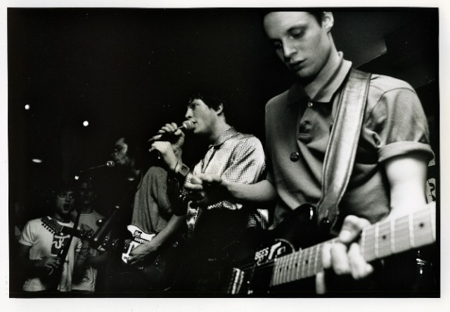 The Maccabees at Buffalo Bar - January, 2006. Posted now as its looking like being a Maccabees all-over-the place summer. I'd have liked for a better lasting image from the night but this is far better than the colour photos that appeared in subsequent issues of Artrocker after their appearance at the Artrocker festival 2006.